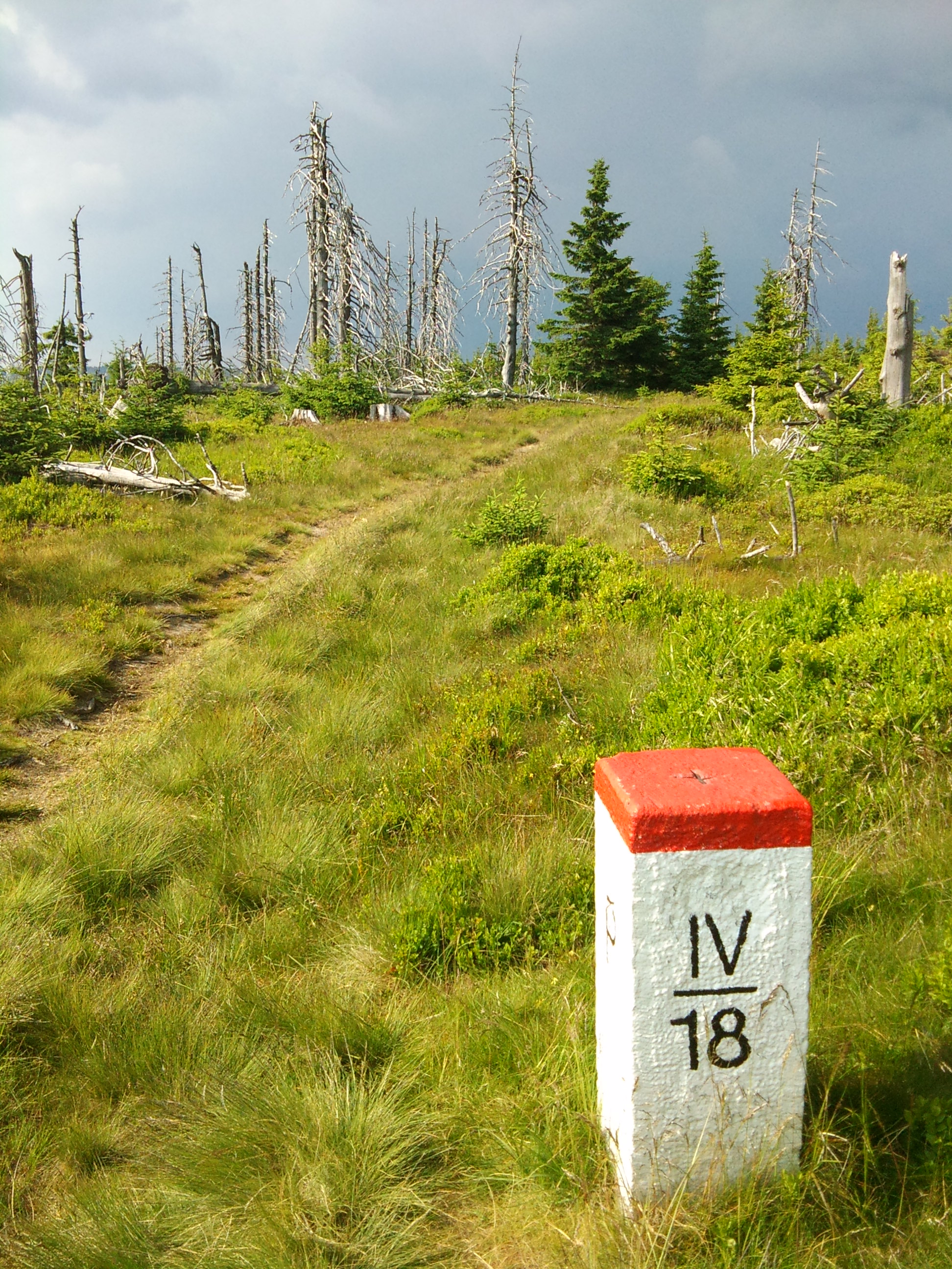 Close to the summit of Lysečina in the Giant Mountains (Krkonoše)